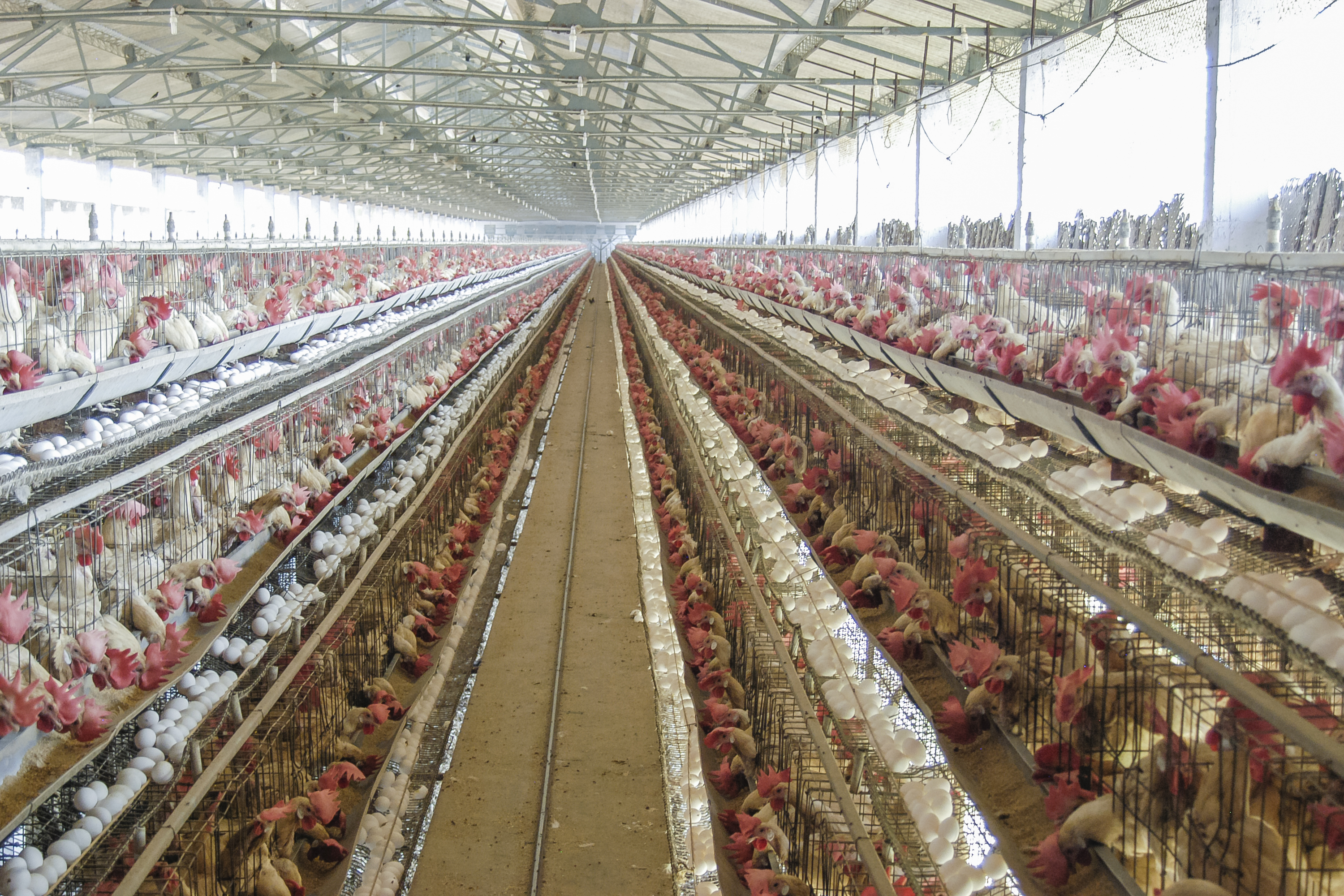 Poultry Farm in Namakkal, Tamil Nadu